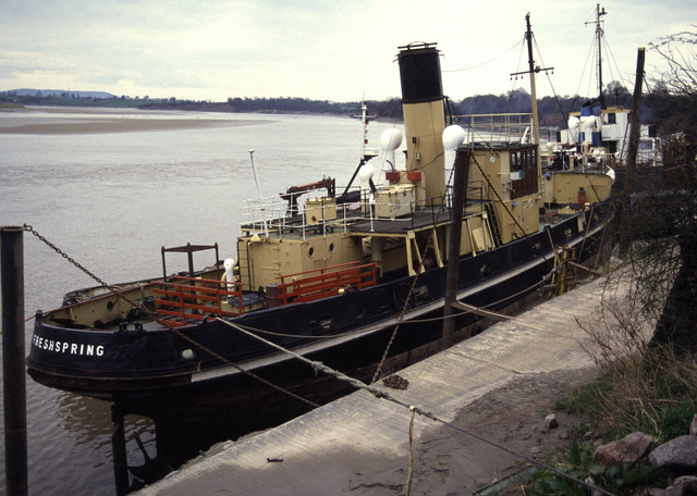 Collow Pill, Newnham on Severn, SS Freshspring This former naval water carrier was on display outside Bristol Industrial Museum for many years but is currently languishing well upstream on the tidal Severn. Access is interesting. When seen in 1992 she was quite tidy. I'm not sure what state she's in now.